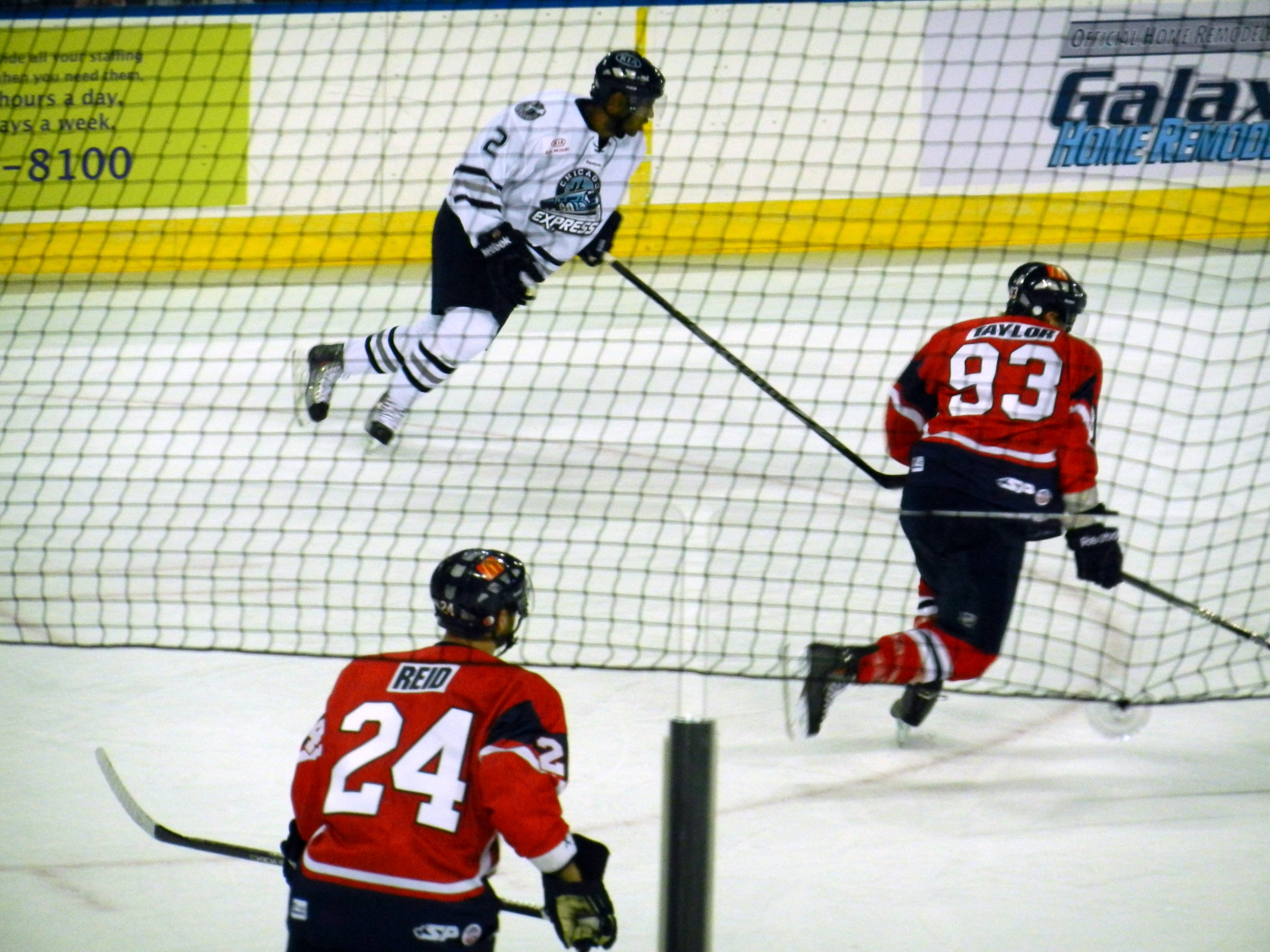 Drew Paris (#2 Chicago Express, white jersey), turns to get into the play as Kalamazoo Wings opponents (red jerseys) Justin Taylor (93) and Elgin Reid (24) do the same